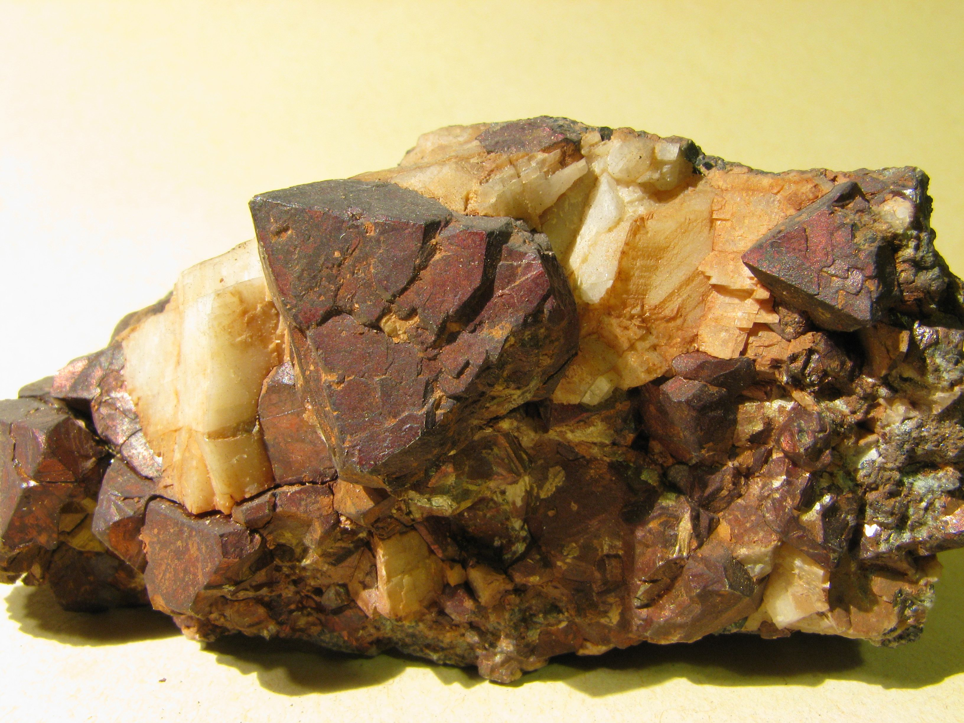 Pyrite octahedral - Italy